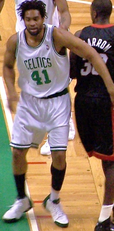 Michael Olowokandi during the final 2005-2006 regular season game of the Miami Heat in Boston.